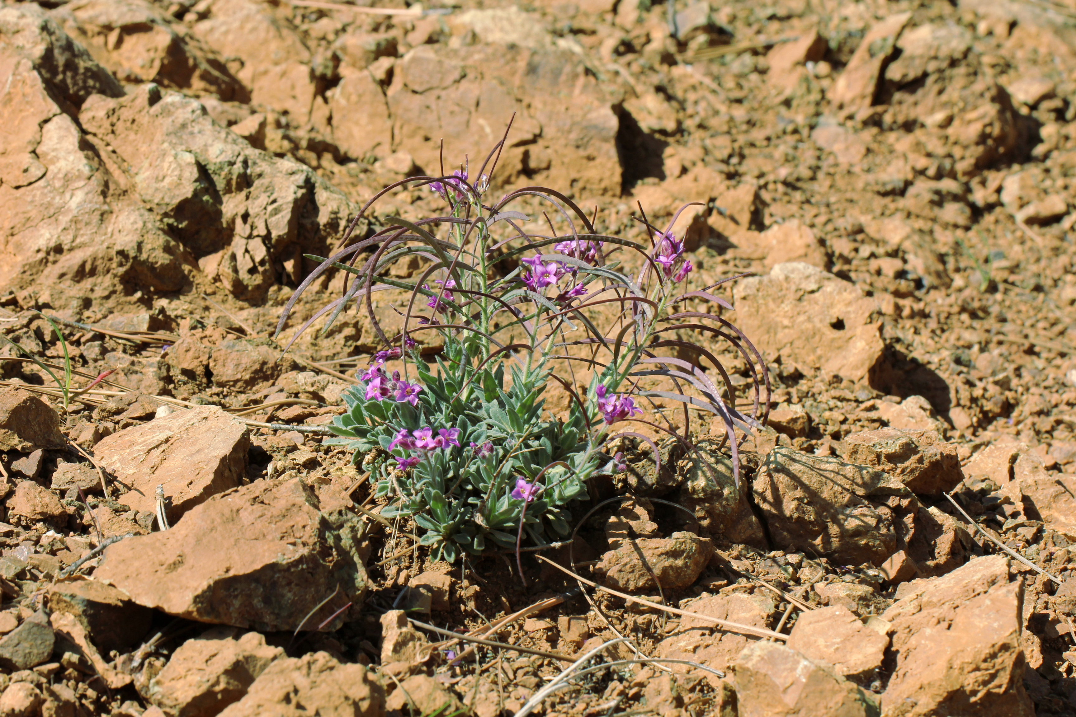 Boechera breweri from Mt. Diablo - March 2014